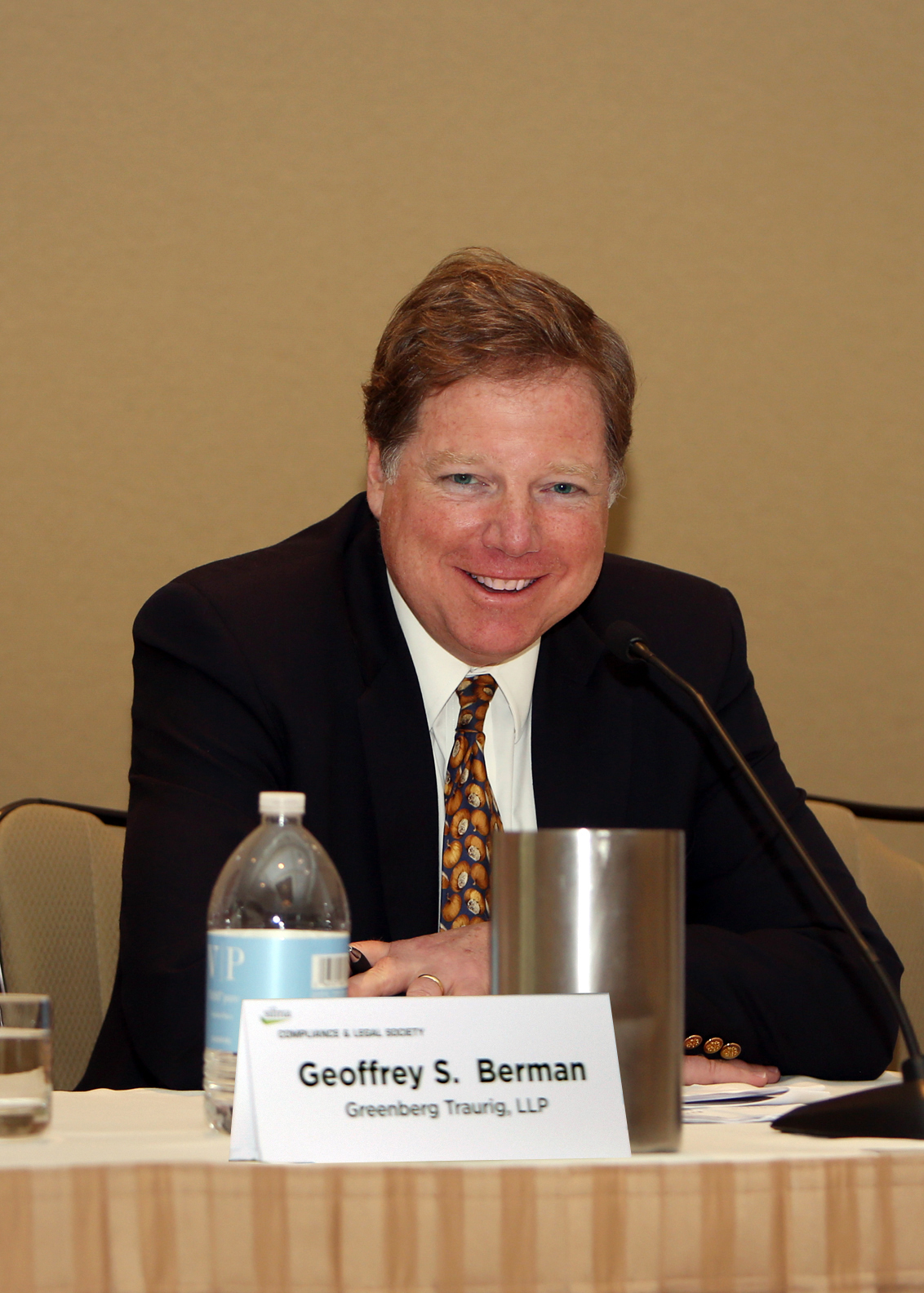 Geoffrey S. Berman speaking at the April 2014 Securities Industry and Financial Markets Association (SIFMA) Compliance & Legal Society Annual Seminar held in Orlando, FL.